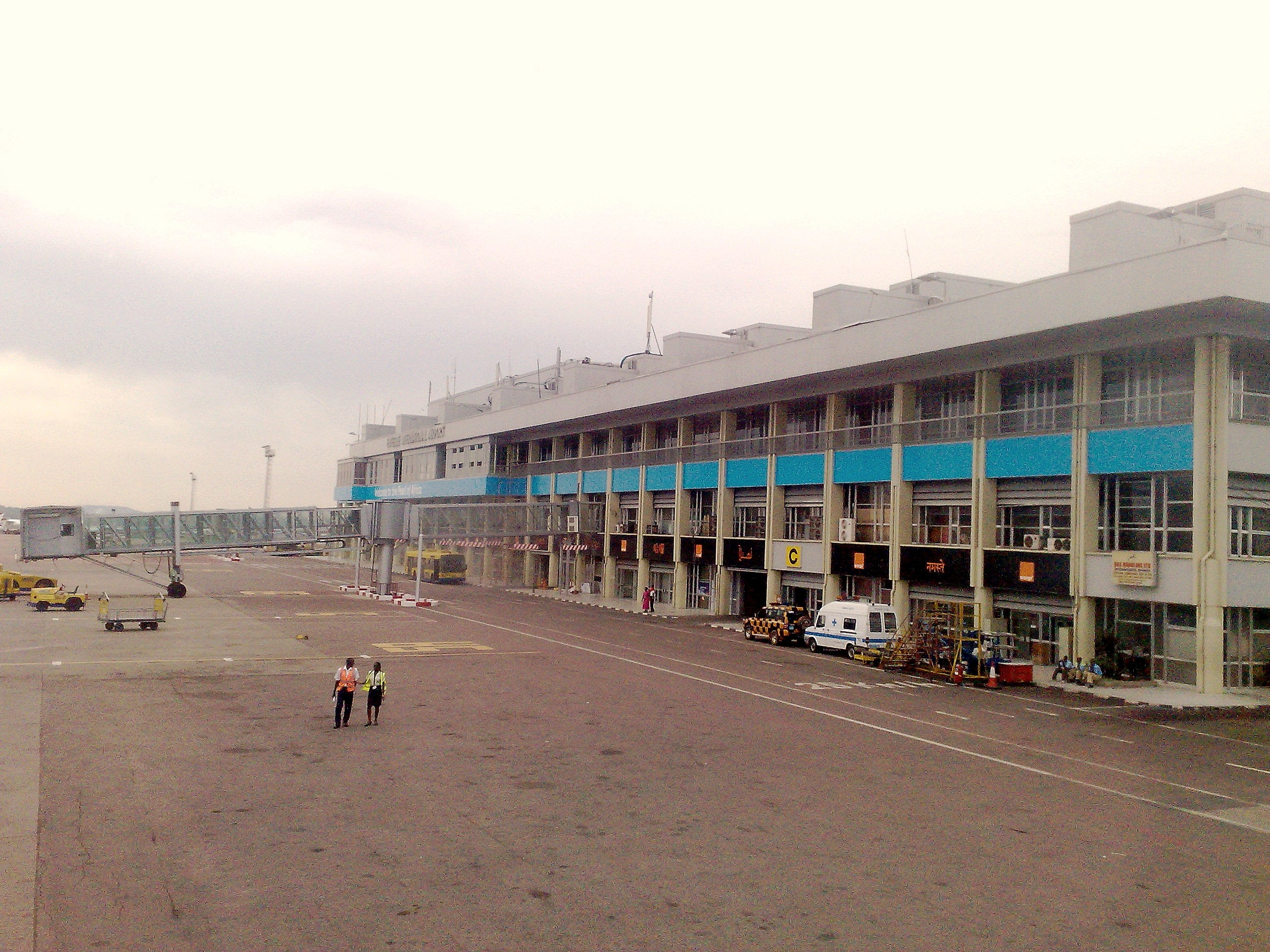 The terminal building at Entebbe International Airport (EBB/HUEN).